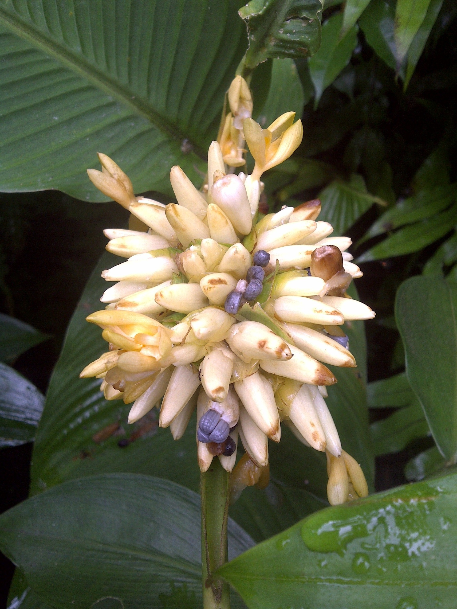 Photo taken in my garden in El Salvador on Oct.01.2011, the fruit became a flower after 5 months.